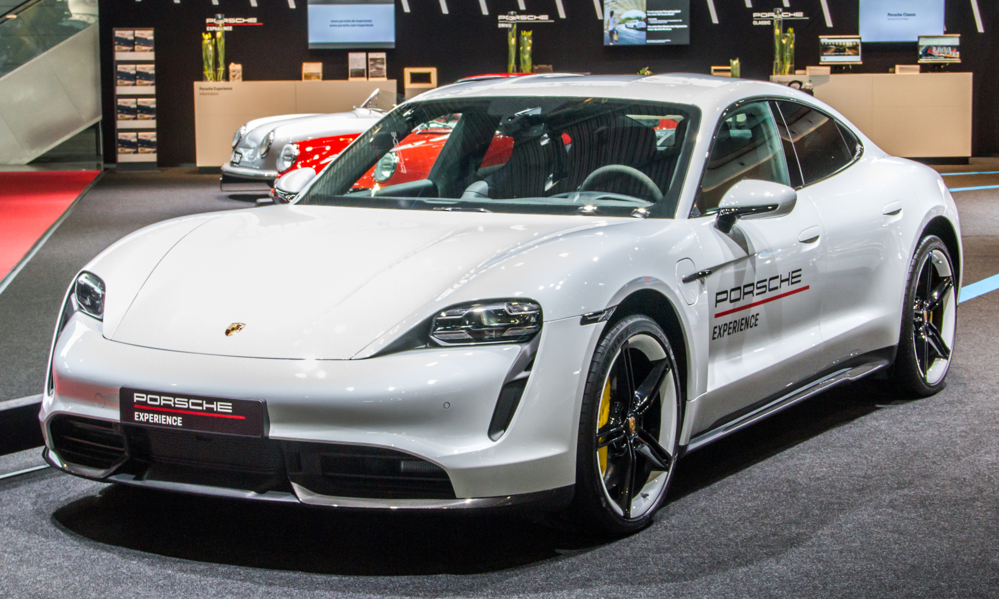 Porsche_Taycan at Retro Classics 2020